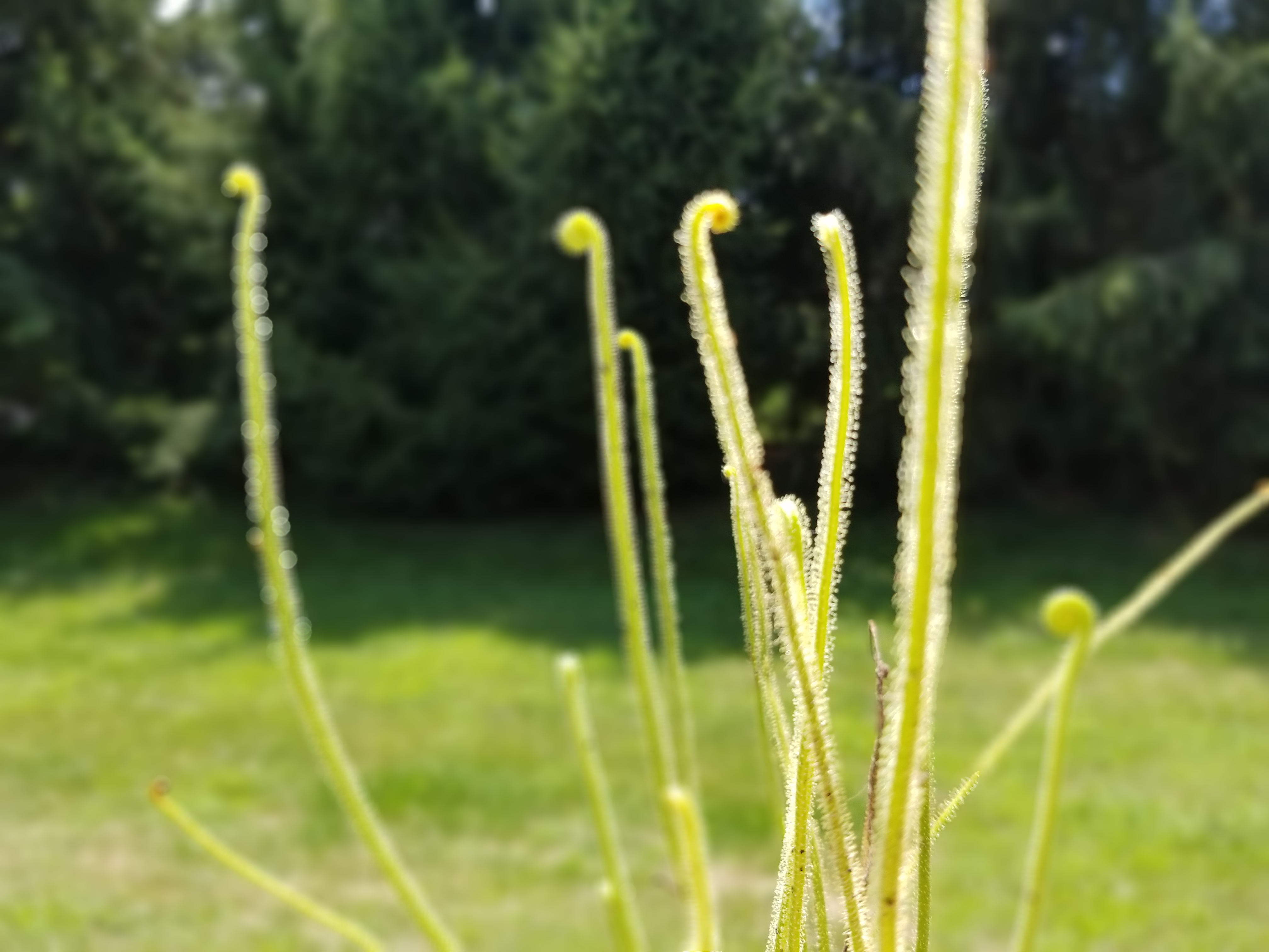 Drosera filiformis var. tracyii